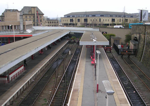 Bradford Interchange Railway Station This photo was taken from Croft Street